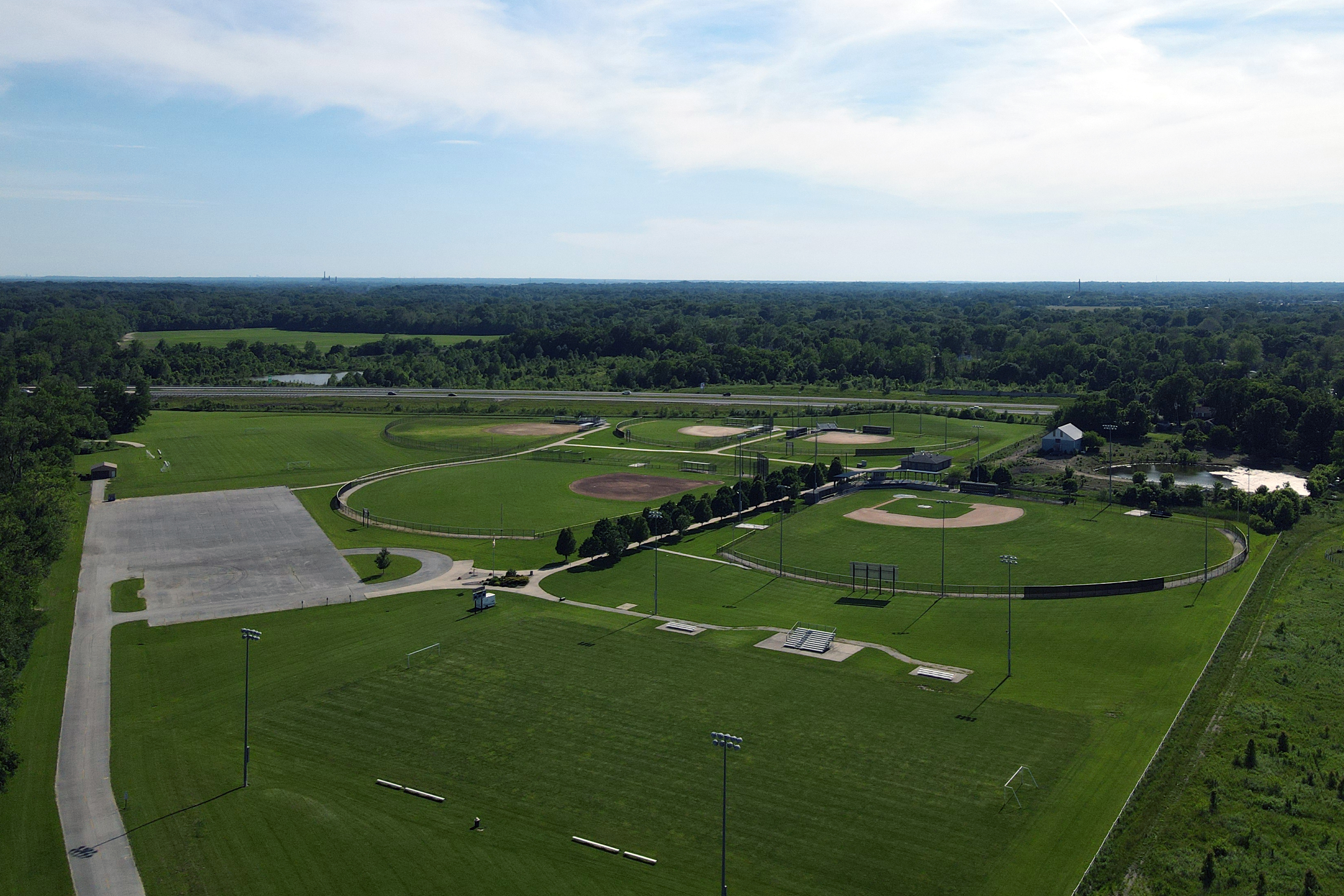 This is an aerial photo of the Bethalto, Illinois Sports Complex